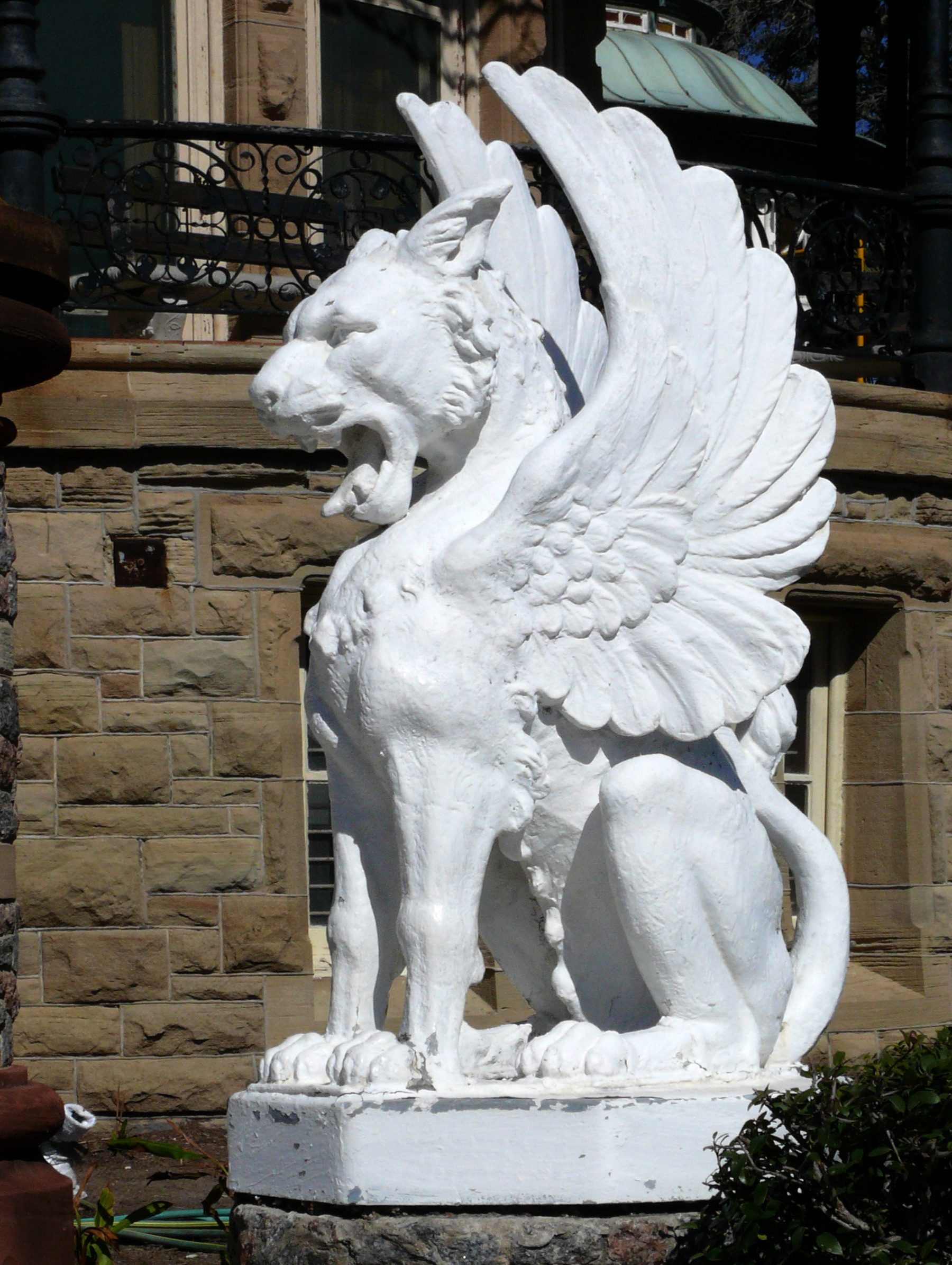 This statue of the Lion of St. Mark is outside the Bishop's Palace in Galveston. The Lion of Saint Mark is a winged lion that symbolically represents John Mark the Evangelist. It is a symbol used to give an immediate and unique sign of identity and power. It doesn’t have an official or political meaning, but only a popular and religious origin.